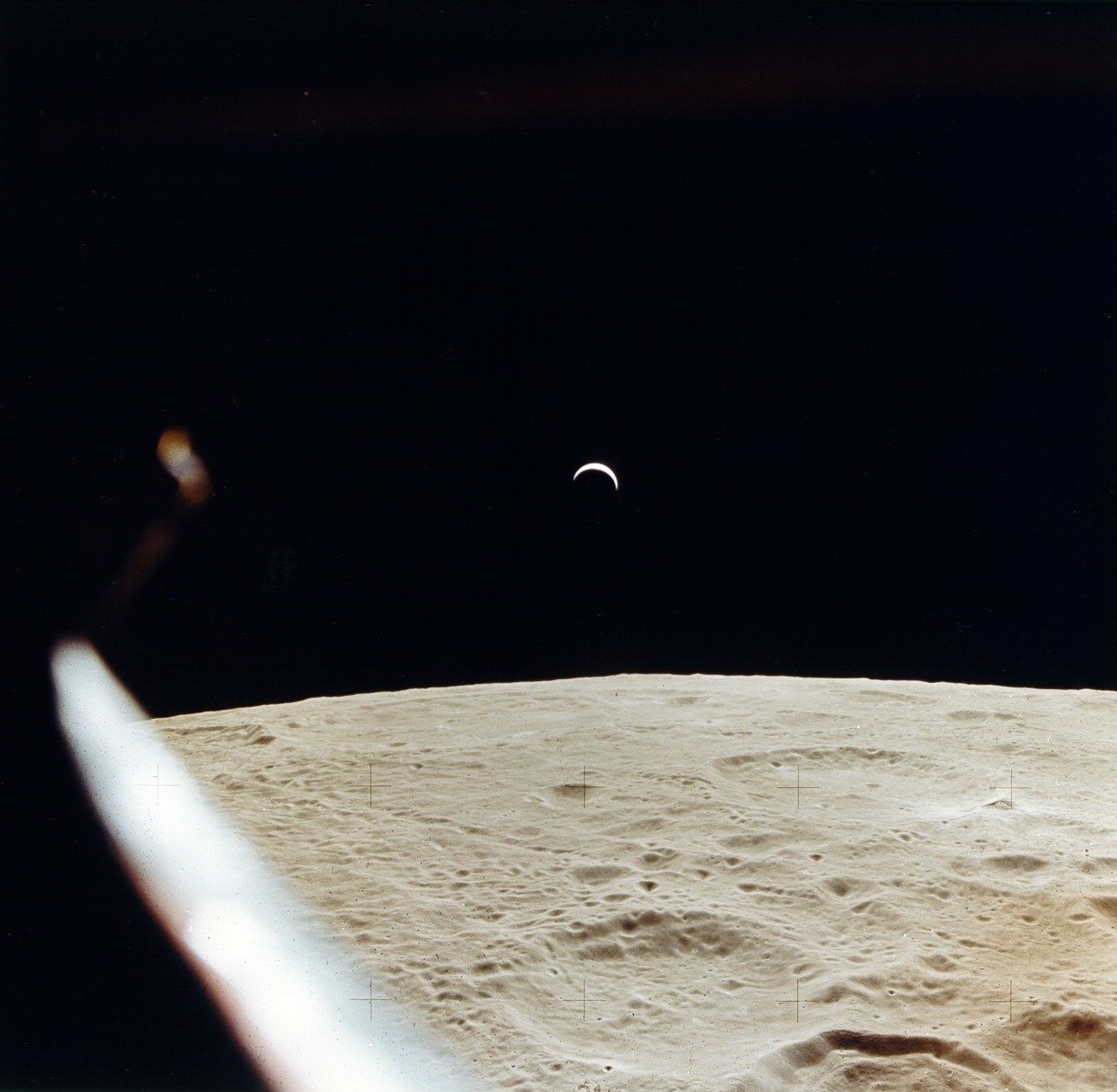 Earthrise as seen by the crew of Apollo 15.